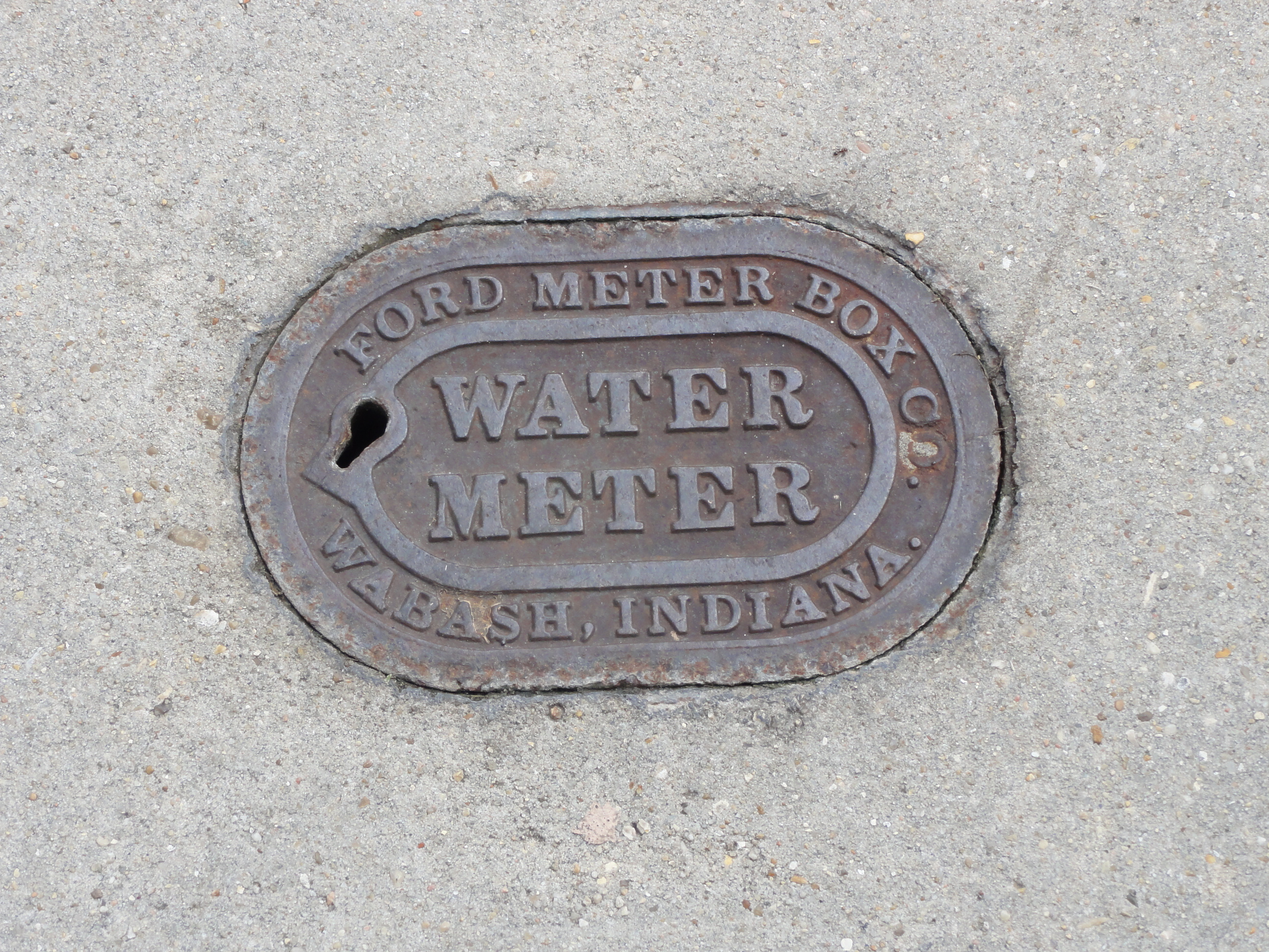 Ford Meter Box, Wabash, Indiana, oblong water meter cover from New Iberia, Louisiana sidewalk